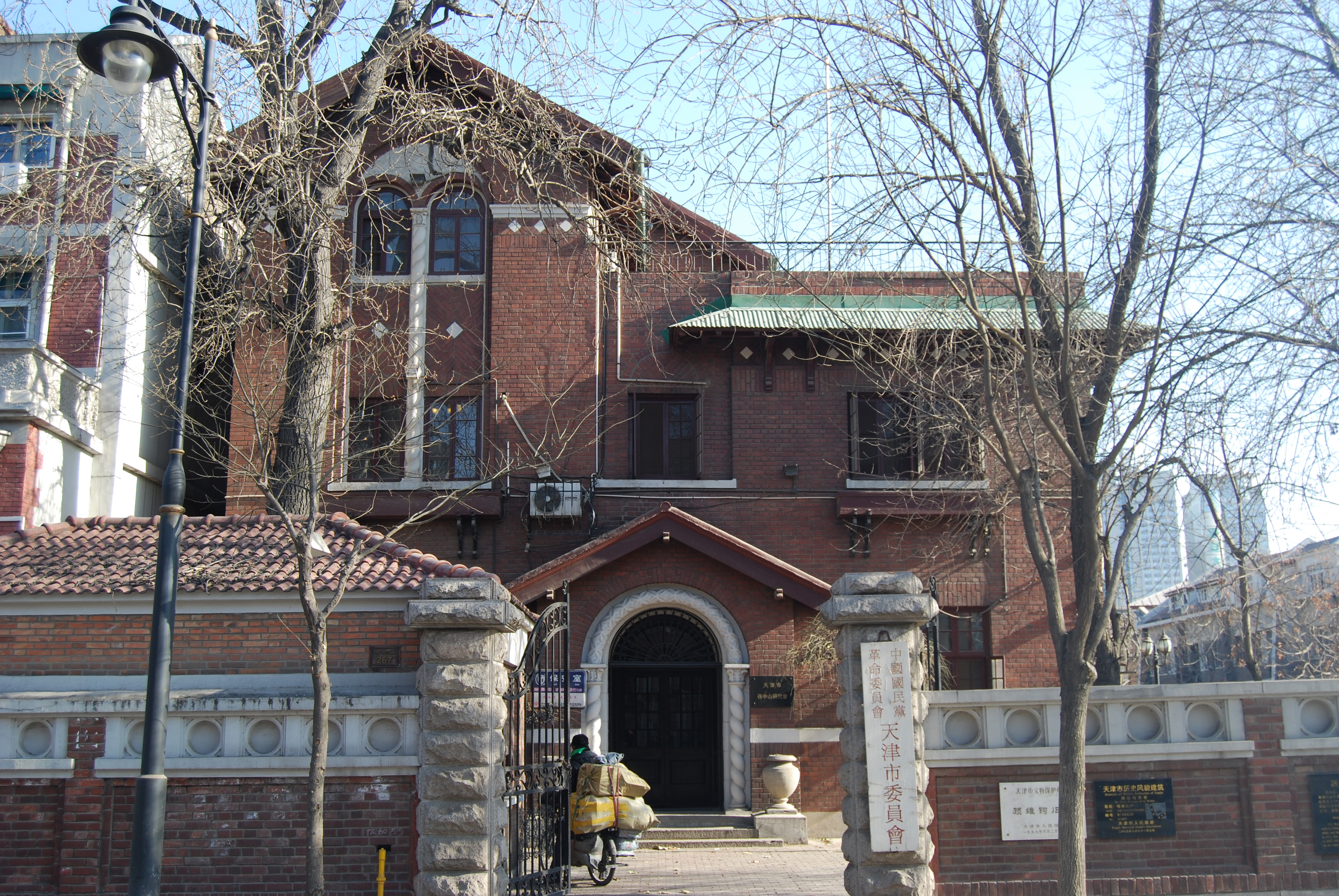 The Former Residence of Gu WeiJun (diplomat V.K. Wellington Koo, 1887–1985) in Hebei Lu No. 267, Heping District, Tianjin